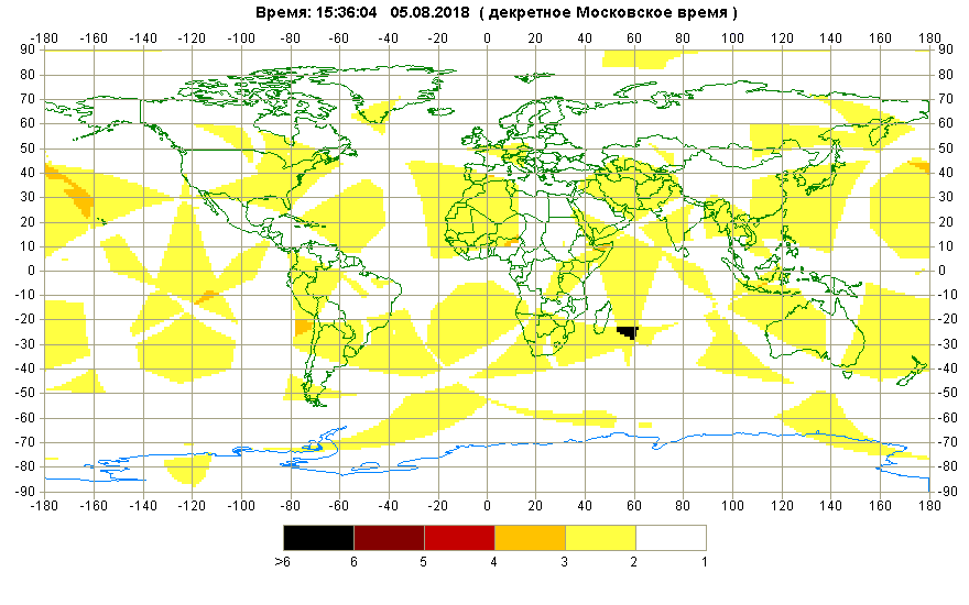 GLONASS instant availability: Current values of position geometry factor PDOP on the Earth surface (mask angle ≥ 5°)